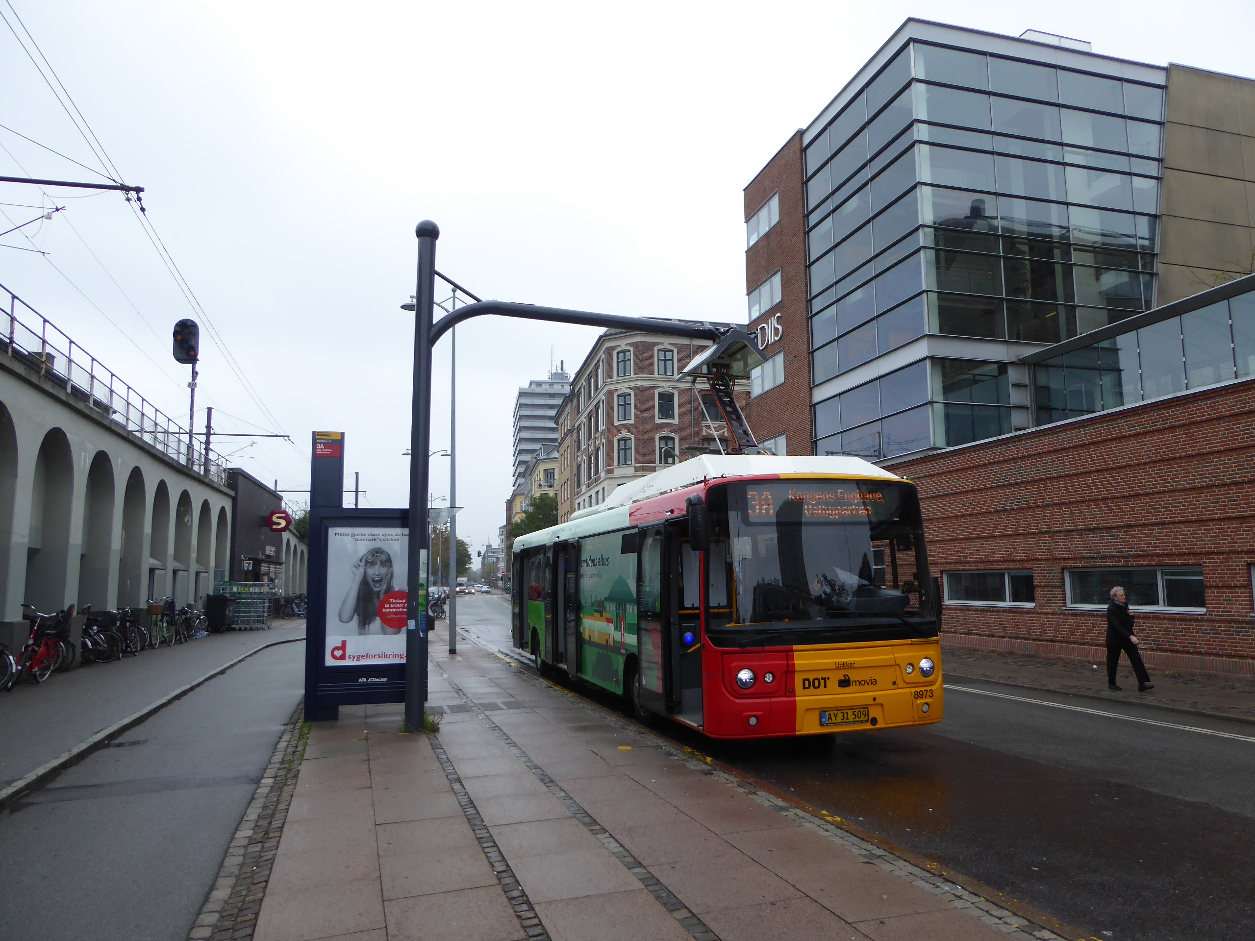 Electrically-powered bus as a test on Movia bus line 3A at the endpoint Nordhavn Station in Østerbro in Copenhagen.